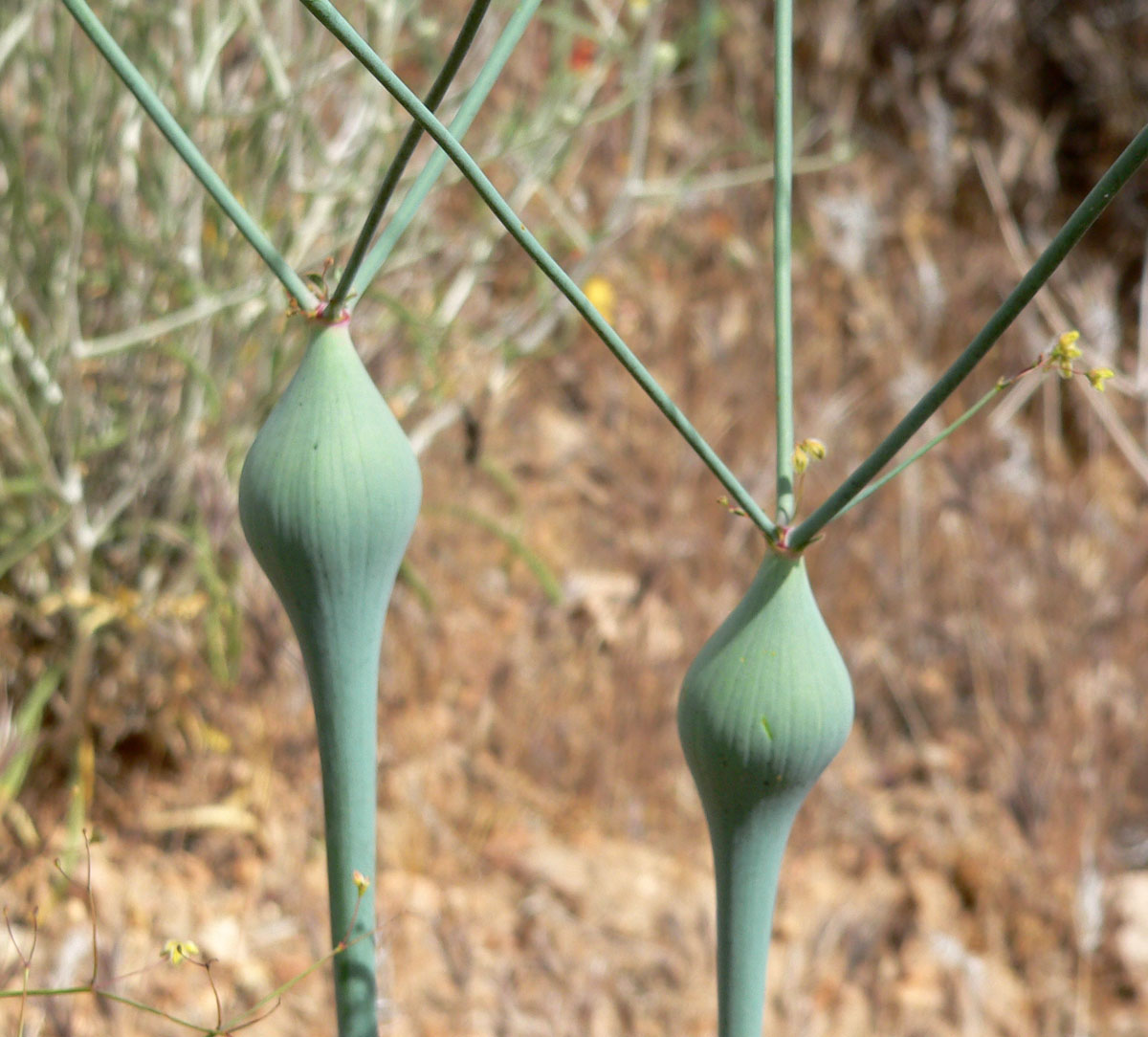 Eriogonum inflatum in the southern end of Red Rock Canyon near Blue Diamond, Nevada